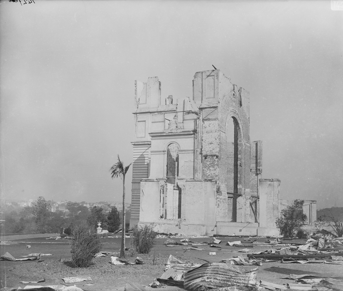 The Garden Palace after being destroyed by fire [NRS 4481 SH1421]. At the time of the fire a number of government departments housed records in the Palace so that when fire completely engulfed the timber building a number of significant documents, such as the 1881 Census, were destroyed. » View the Garden Palace Fire Gallery (photos and documents including a report by the night watchman) We'd love to hear from you if you use our photos. Many other photos in our collection are available to view and browse on our website using Photo Investigator.